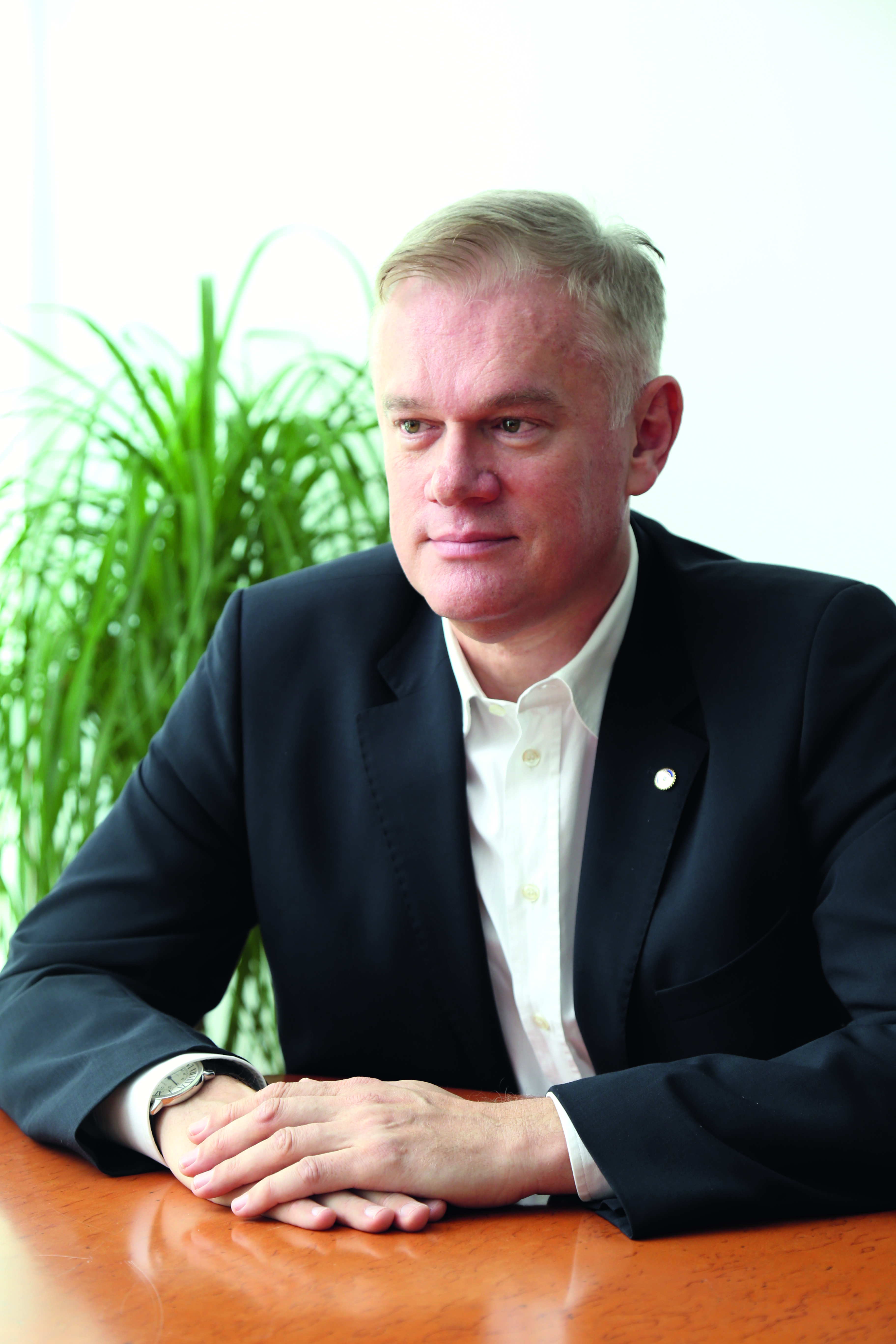 Darko Tipurić - Interview with LIDER journalist (2017)